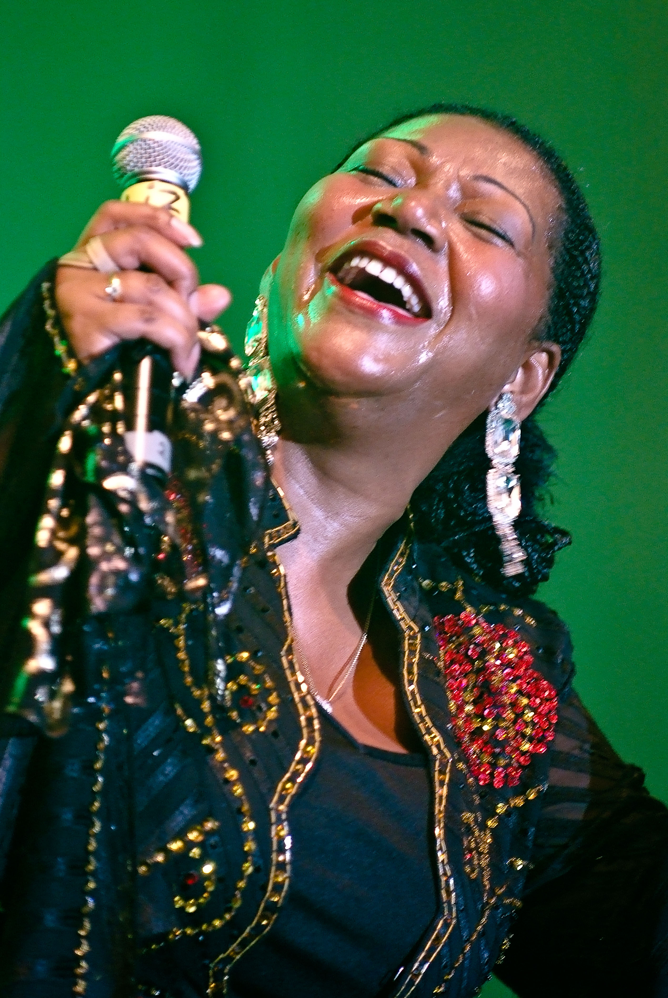 Liz Mitchell of Boney M in Kiel, 19 June 2009